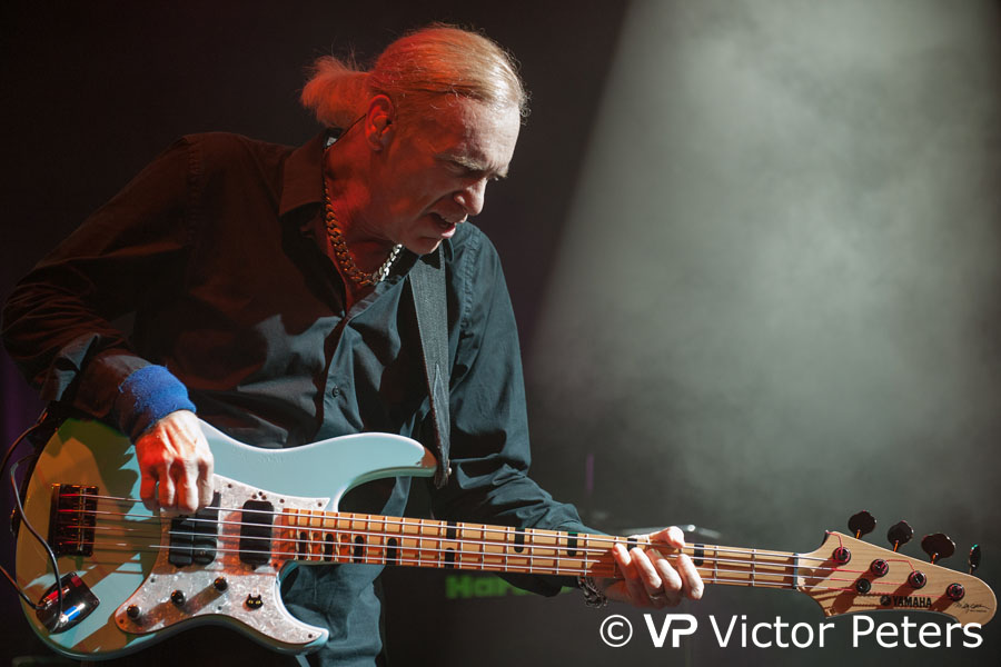 Billy Sheehan, playing with The Winery Dogs at De Boerderij in Zoetermeer, The Netherlands (2013/09/06)